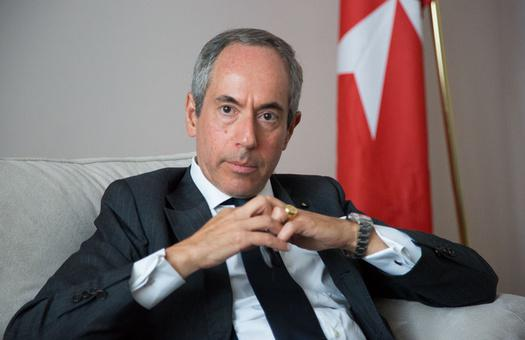 The ambassador of Sovereign Military Order of Malta in Ukraine Antonio Gazzanti Pugliese Di Cotrone.